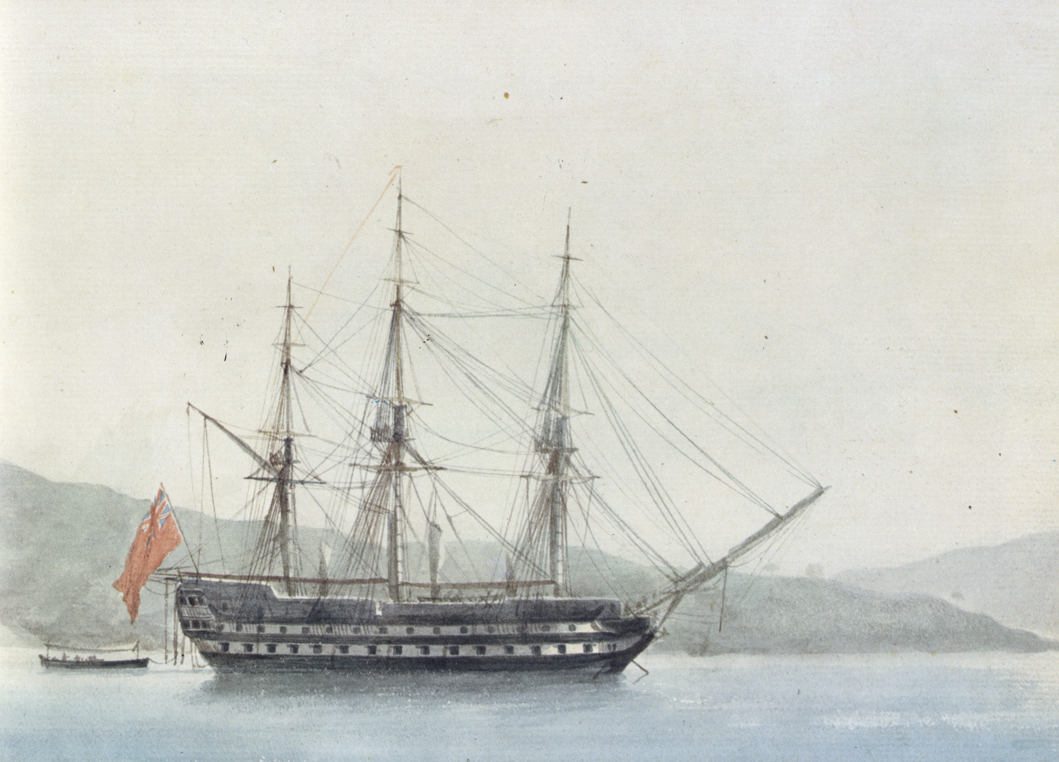 HMS Dragon (? labelled HMS Fame) off Endoume, Marseille.